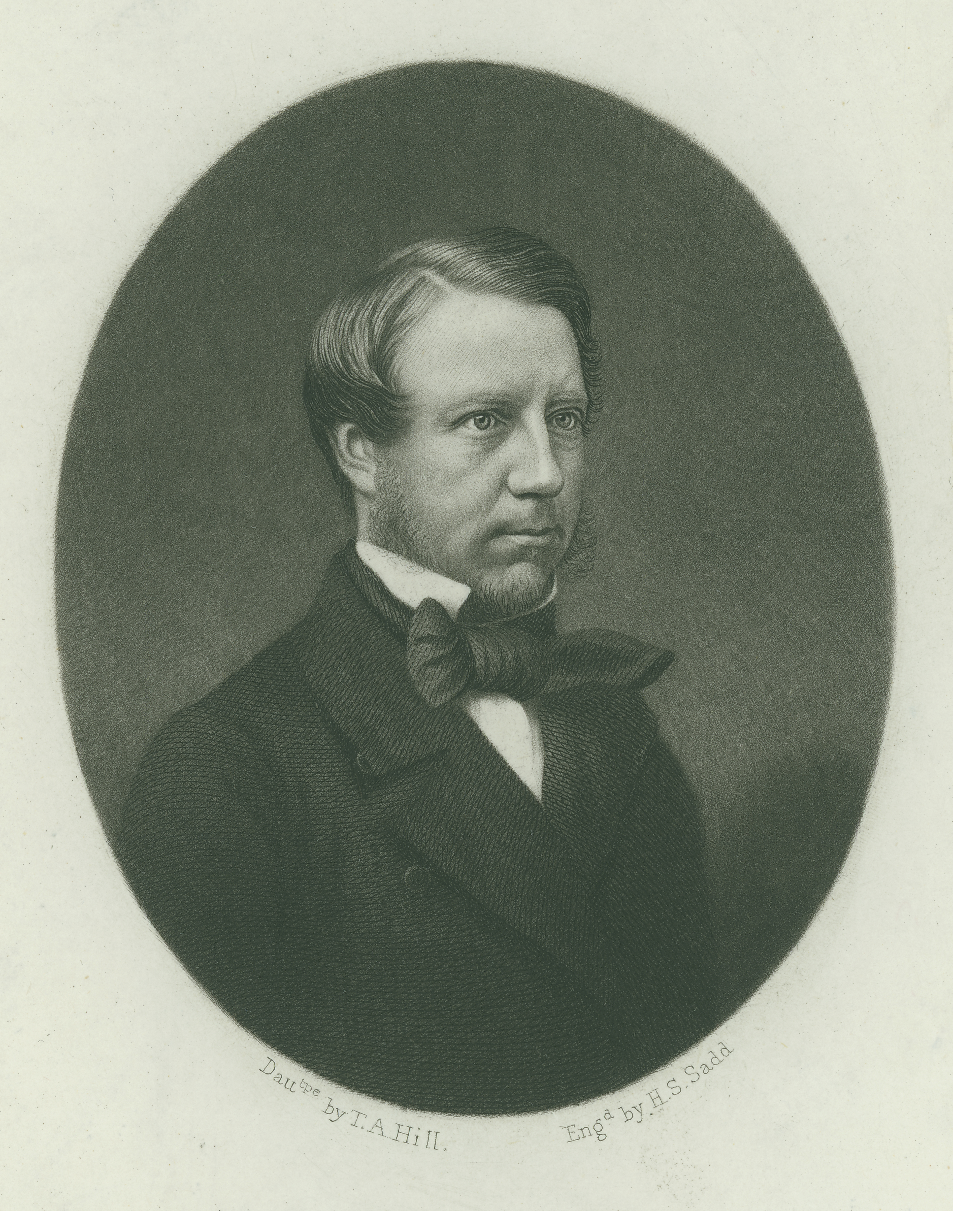 Image of John Everard M.L.A for Rodney, Victoria, Australia